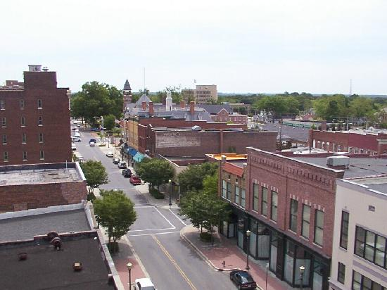 The Historic downtown Rock Hill